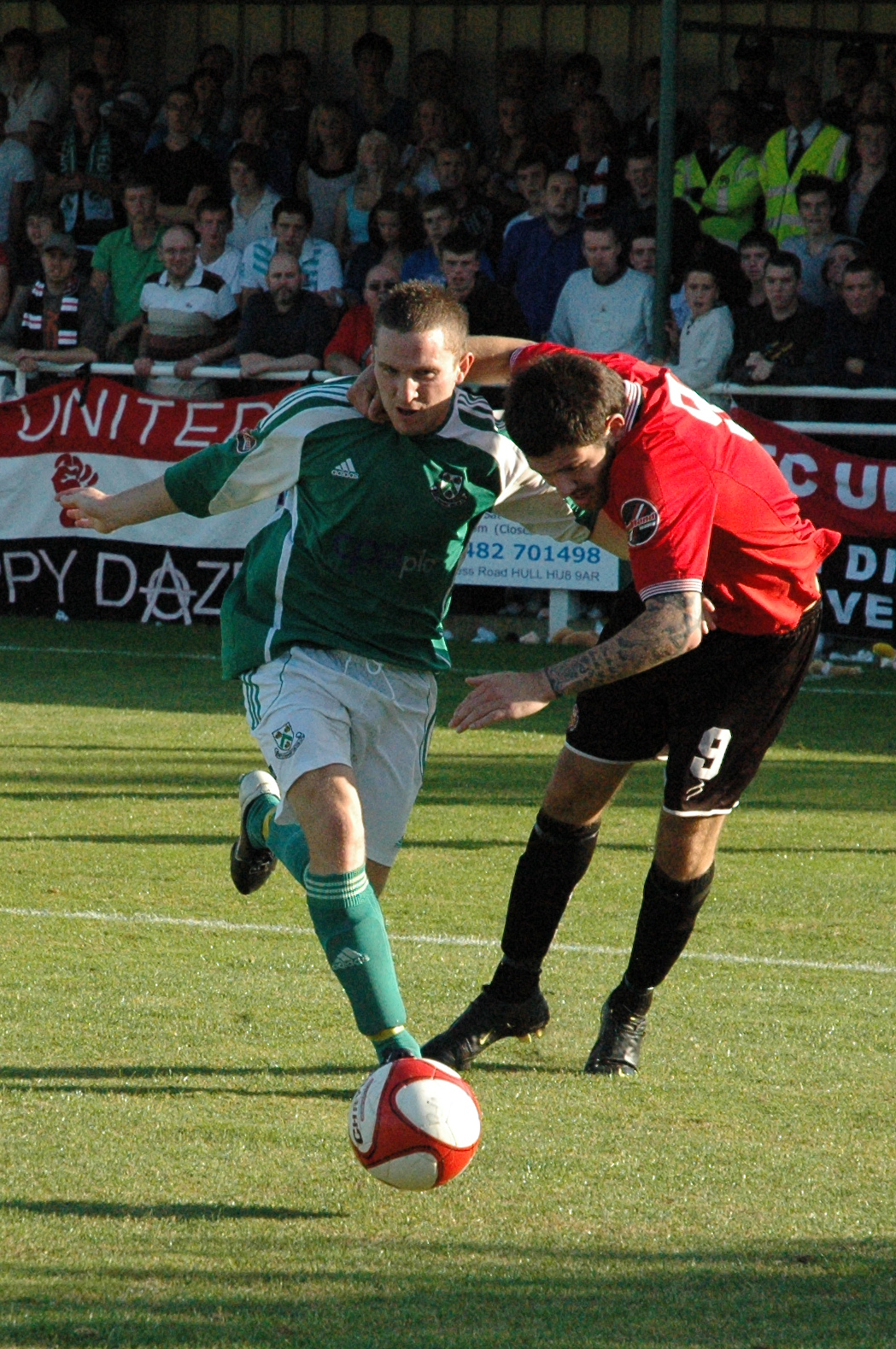 FA Cup 2nd Qualifying Round. North Ferriby United 0-1 FC United of Manchester. Grange Lane, North Ferriby, East Riding of Yorkshire.